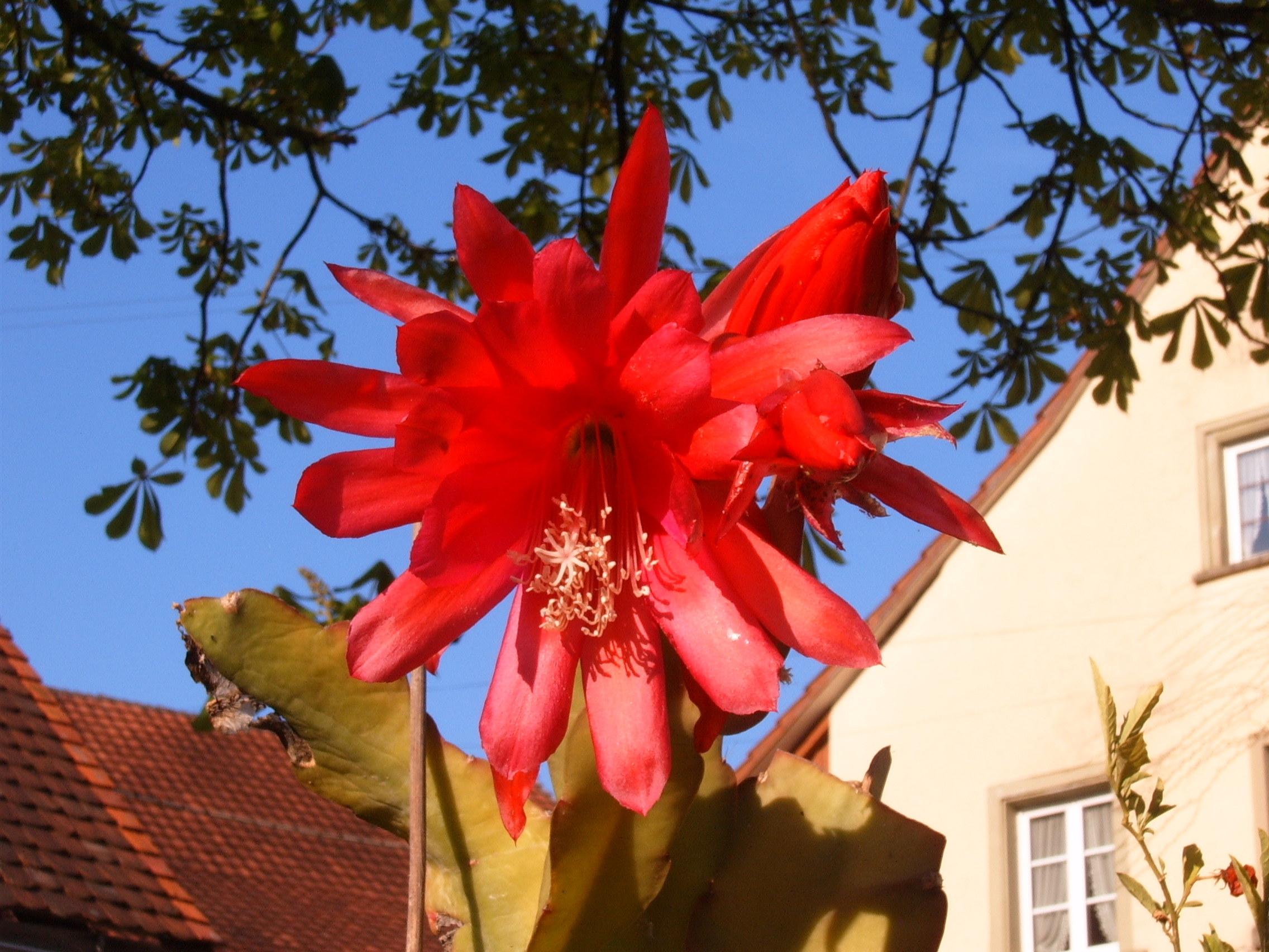 Disocactus / Nopalxochia or a cultivated hybride